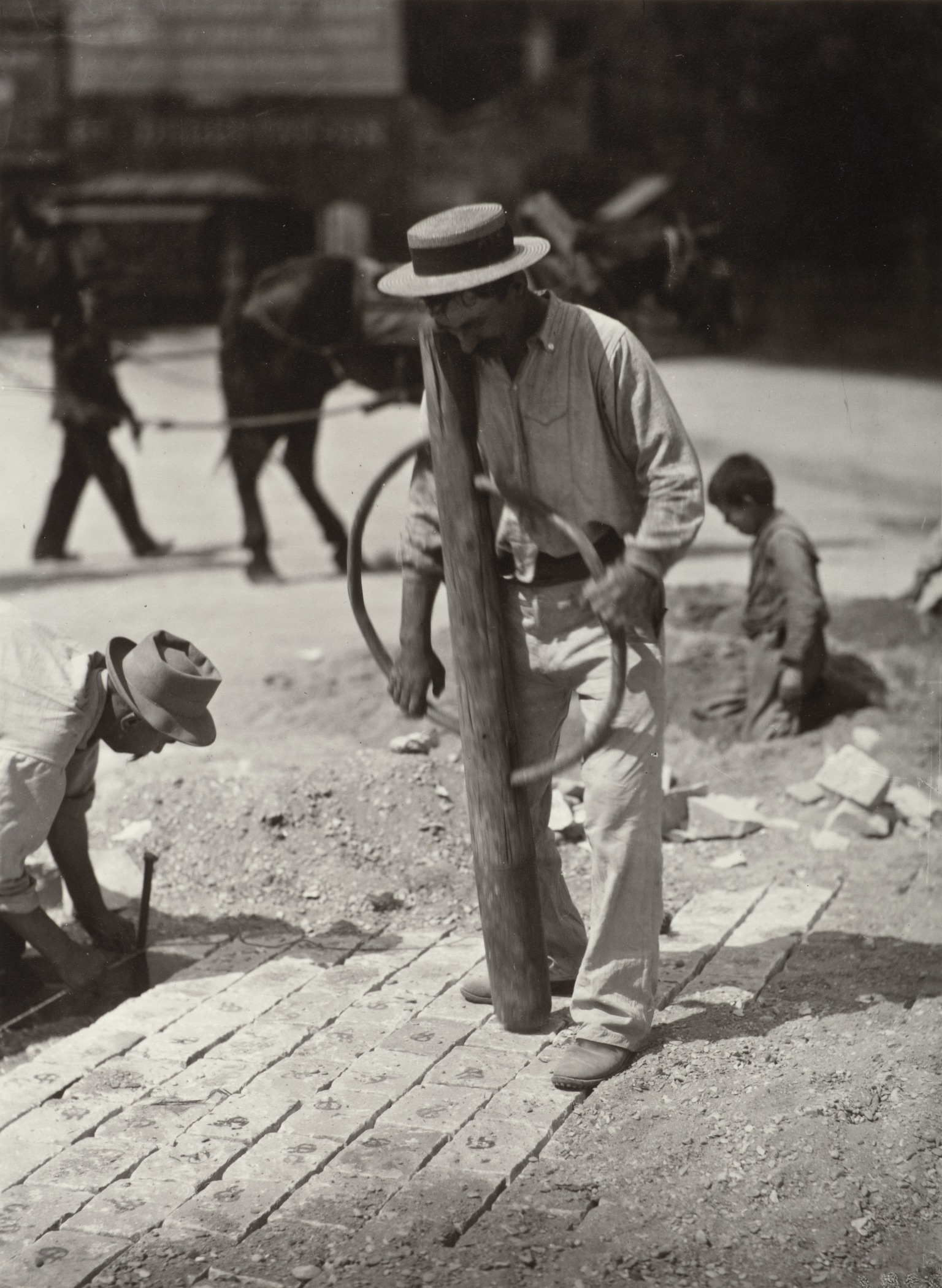 France, 1956 Photographs Silver (gold-toned) Mount: 13 x 10 The Marjorie and Leonard Vernon Collection, gift of The Annenberg Foundation, acquired from Carol Vernon and Robert Turbin (M.2008.40.154.12) Photography